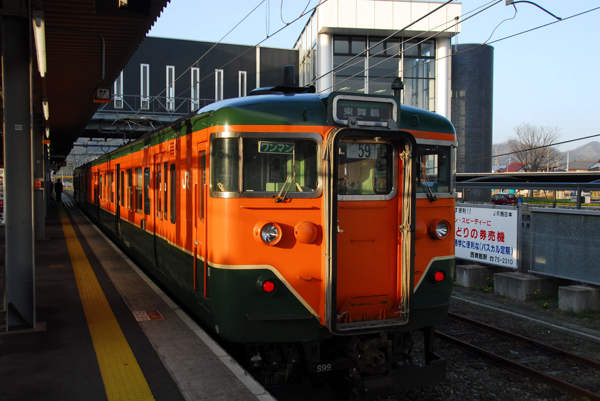 Japan Railway 113 Series EMU (Nishi-Maizuru-Station)